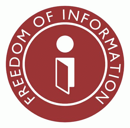 This logo was used to illustrate an article on reacting to Freedom of Information Act requests